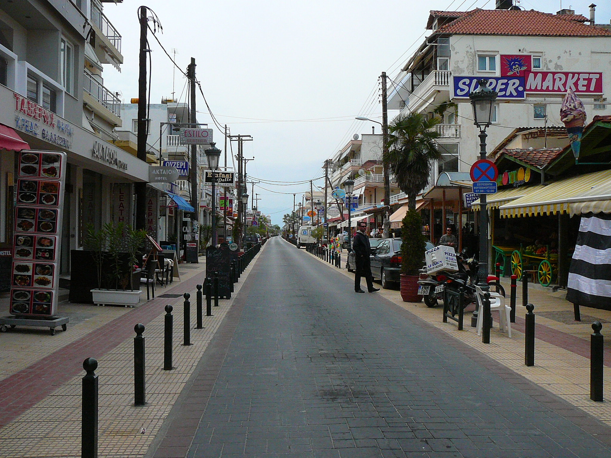 Paralia, Pieria, Greece